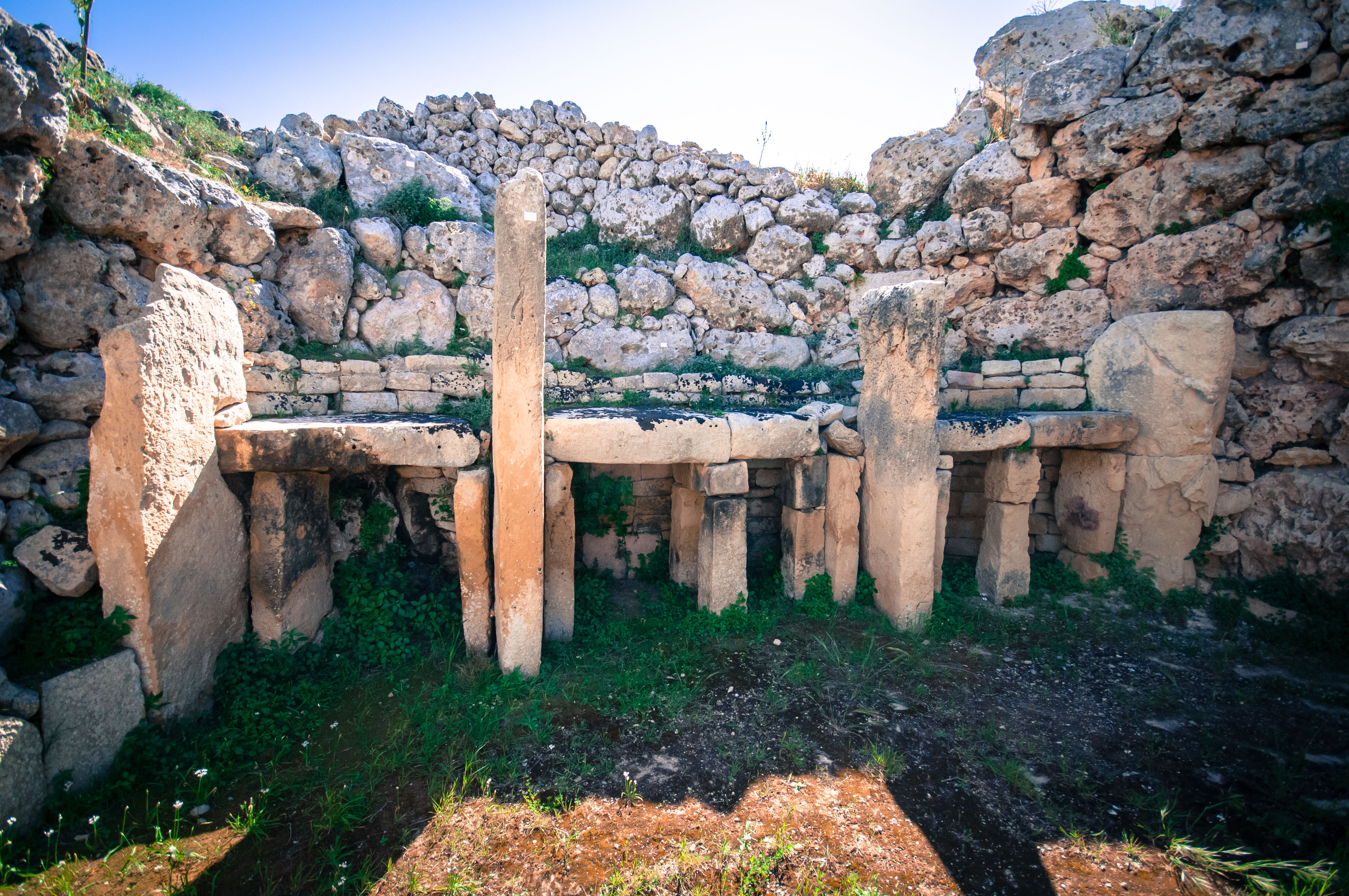 Ġgantija Megalithic Temples complex on Gozo in Malta.